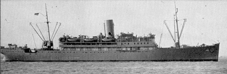 USS Talamanca (AF-15) underway, 30 June 1942, location unknown. US Navy photo